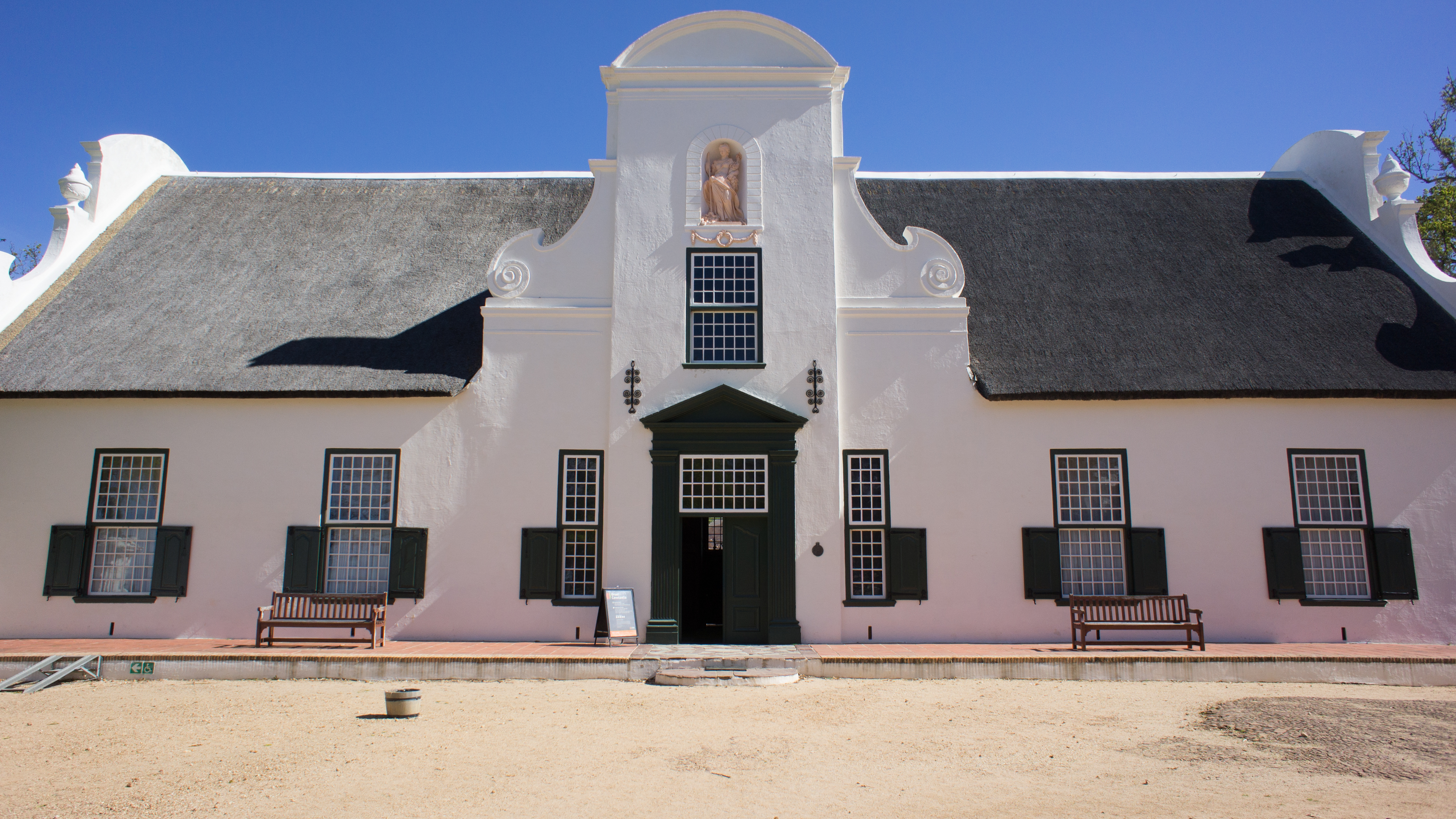 This media shows a South African Protected Site with SAHRA file reference 9/2/111/0015.